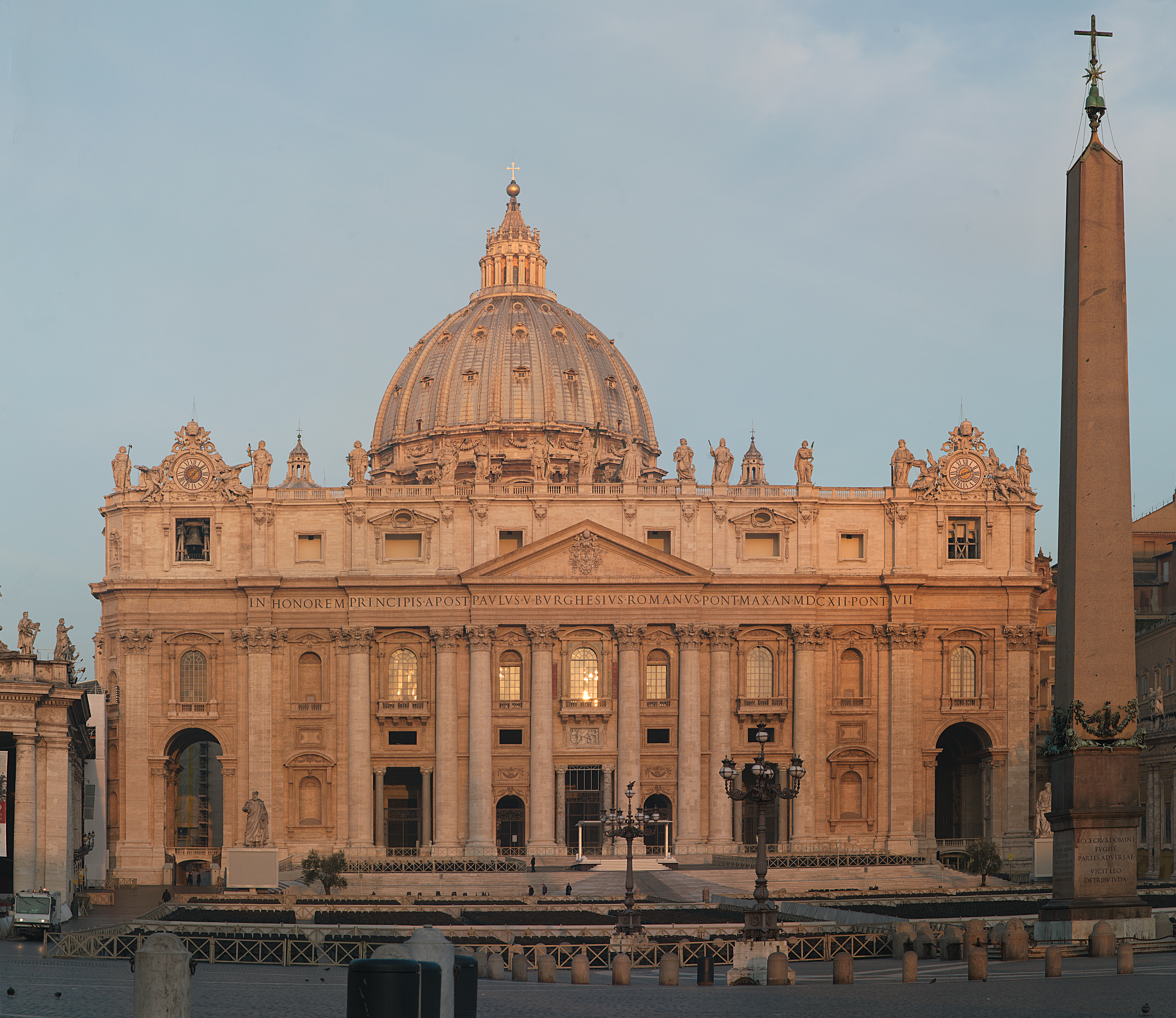 Facade of St.Peter's Basilica in the morning